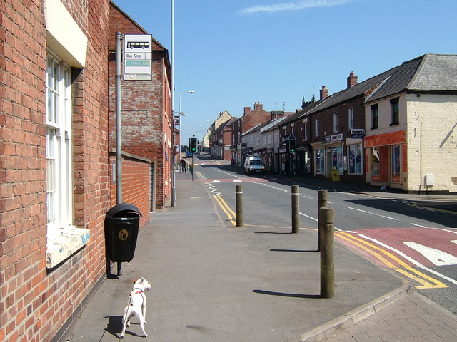 Up on high Looking up High Street, Measham.